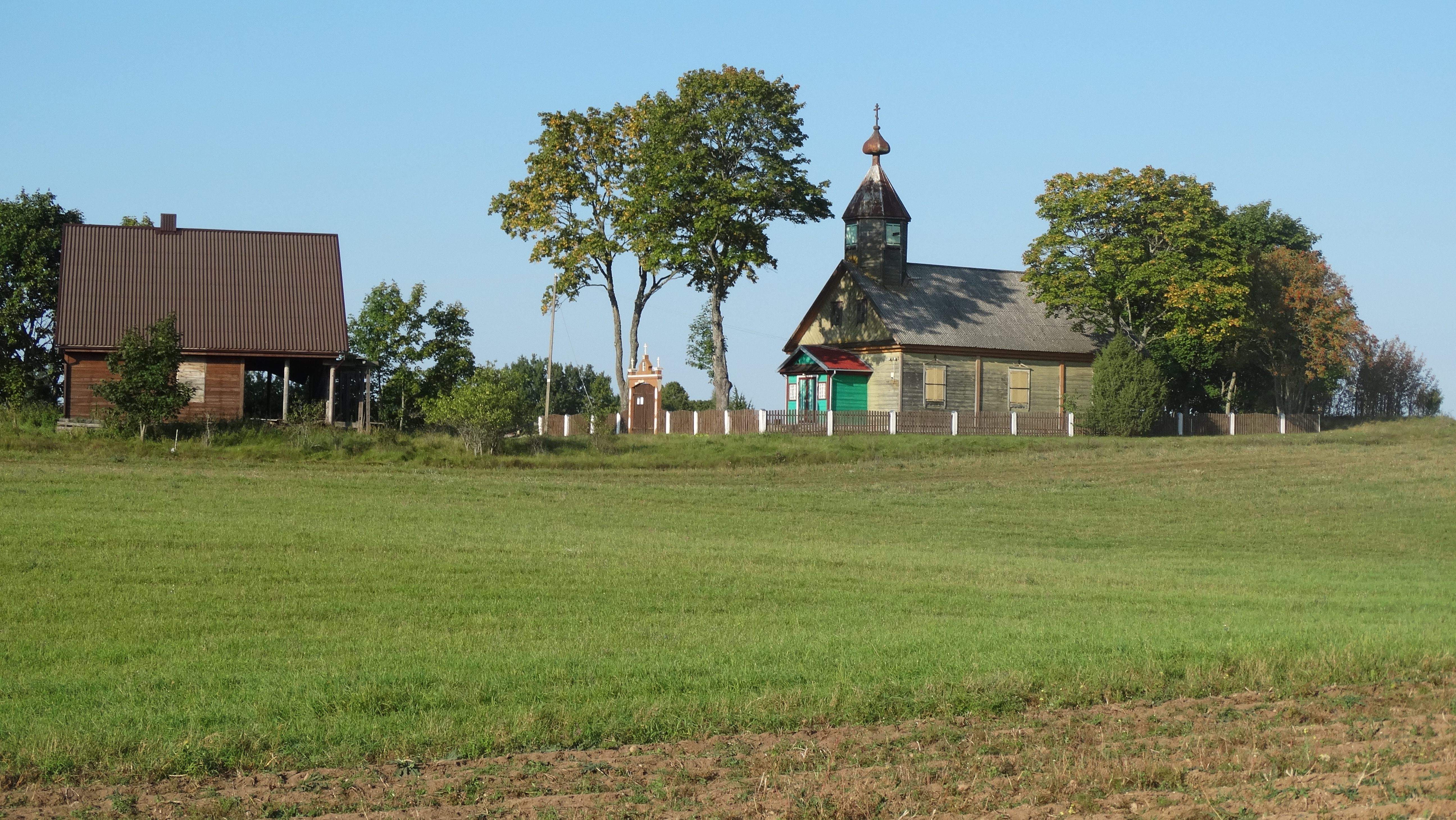 Church of Old Believers in Rūsteikiai, Zarasai district, Lithuania